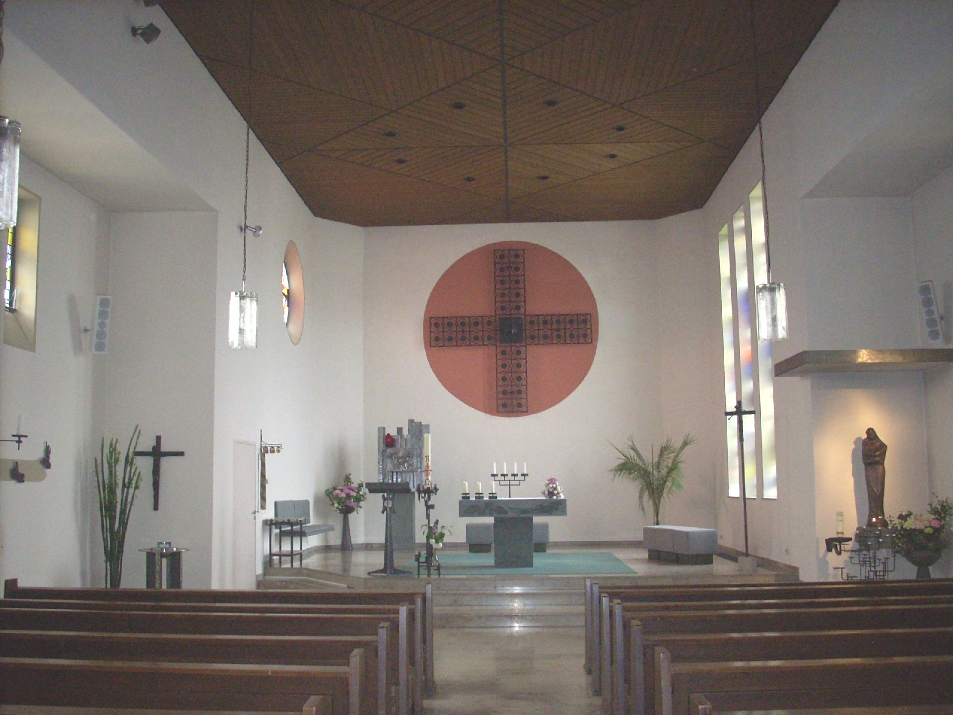 St. Maria Catholic Church, Pattensen, Interior